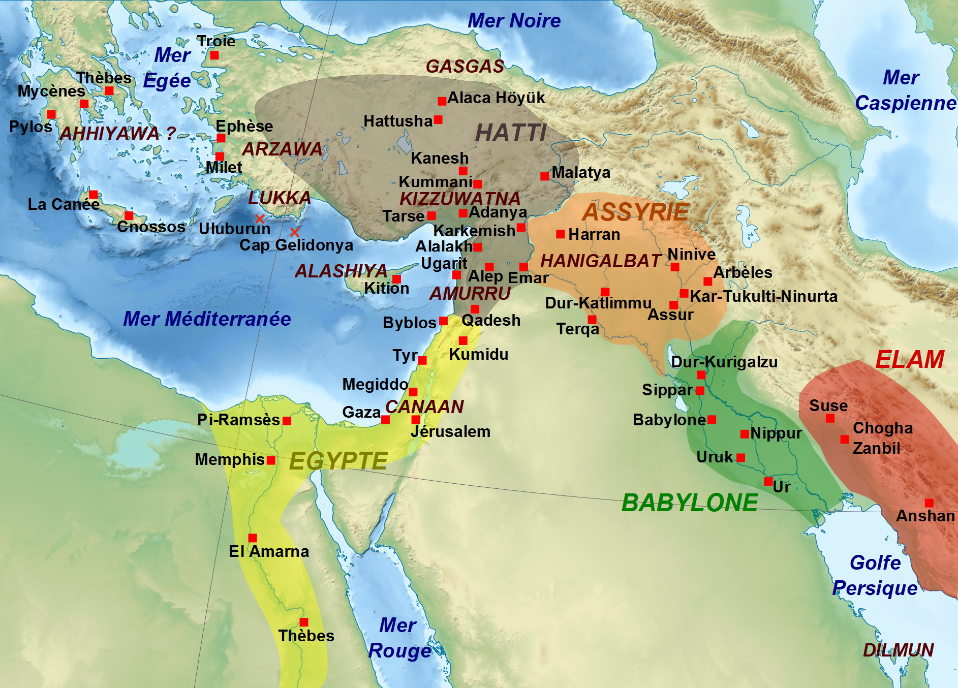 Map showing the approximate extension of the main kingdoms of the Middle East durint the 13th century BC, with the main cities and archaeological sites, and some regions.